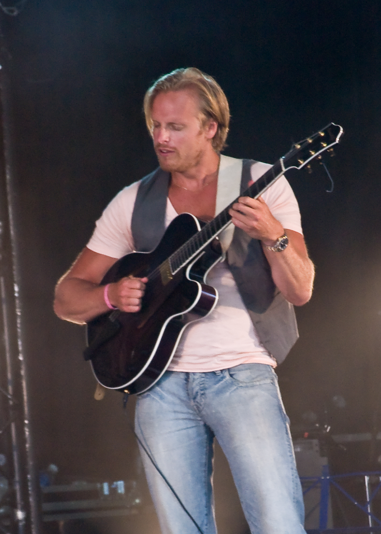 Andreas Öberg at Django Reinhardt Festival in Samois-sur-Seine, June 2009, France.